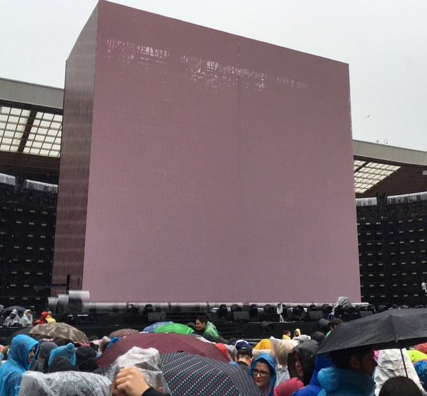 An image of Beyoncé's stage from The Formation World Tour, taken in Sunderland, England on June 28, 2016.